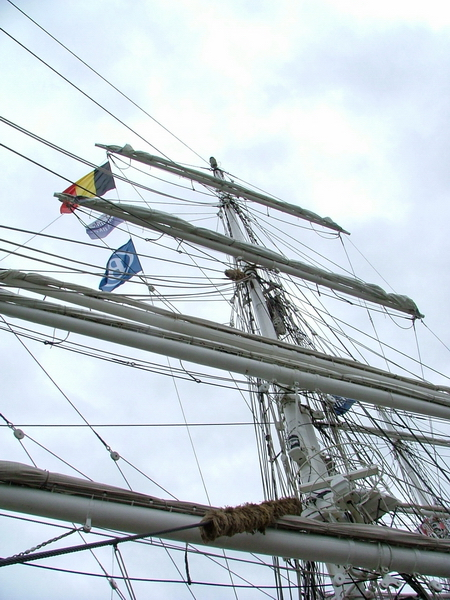 on board of the French threemast barque Belem (launched in 1896)